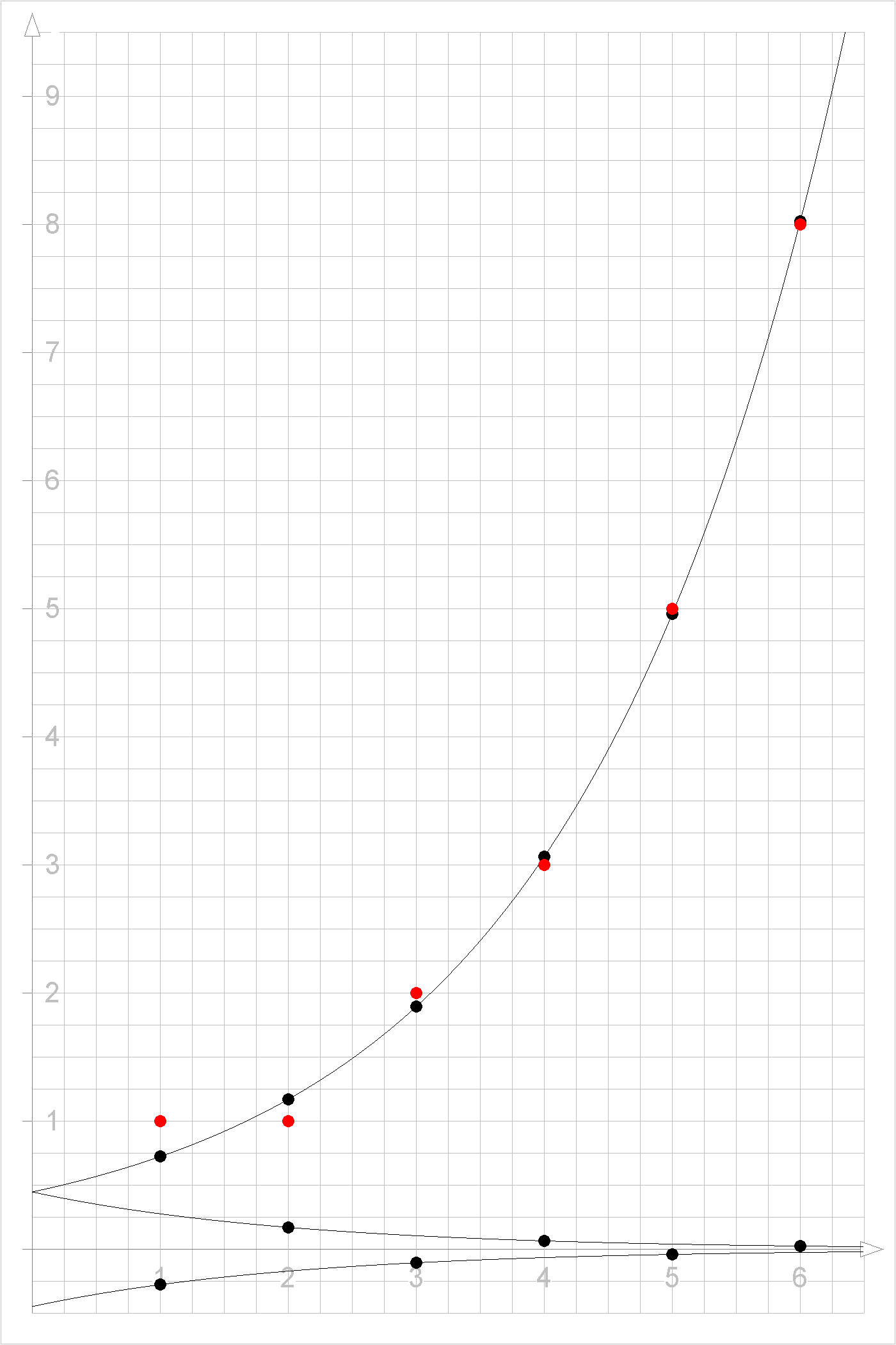 The Fibonacci sequence is shown in red and defined by Binet's formula: f n = 1 5 [ ( 1 + 5 2 ) n − ( 1 − 5 2 ) n ] = u n − l n {\displaystyle f_{n}={\frac {1}{\sqrt {5 }\left[\left({\frac {1+{\sqrt {5 }{2 \right)^{n}-\left({\frac {1-{\sqrt {5 }{2 \right)^{n}\right]=u_{n}-l_{n}~} Upper black sequence: u n = 1 5 ( 1 + 5 2 ) n {\displaystyle u_{n}={\frac {1}{\sqrt {5 }\left({\frac {1+{\sqrt {5 }{2 \right)^{n Lower black sequence (alternating): l n = 1 5 ( 1 − 5 2 ) n {\displaystyle l_{n}={\frac {1}{\sqrt {5 }\left({\frac {1-{\sqrt {5 }{2 \right)^{n This function graph was created with Ultiplot.